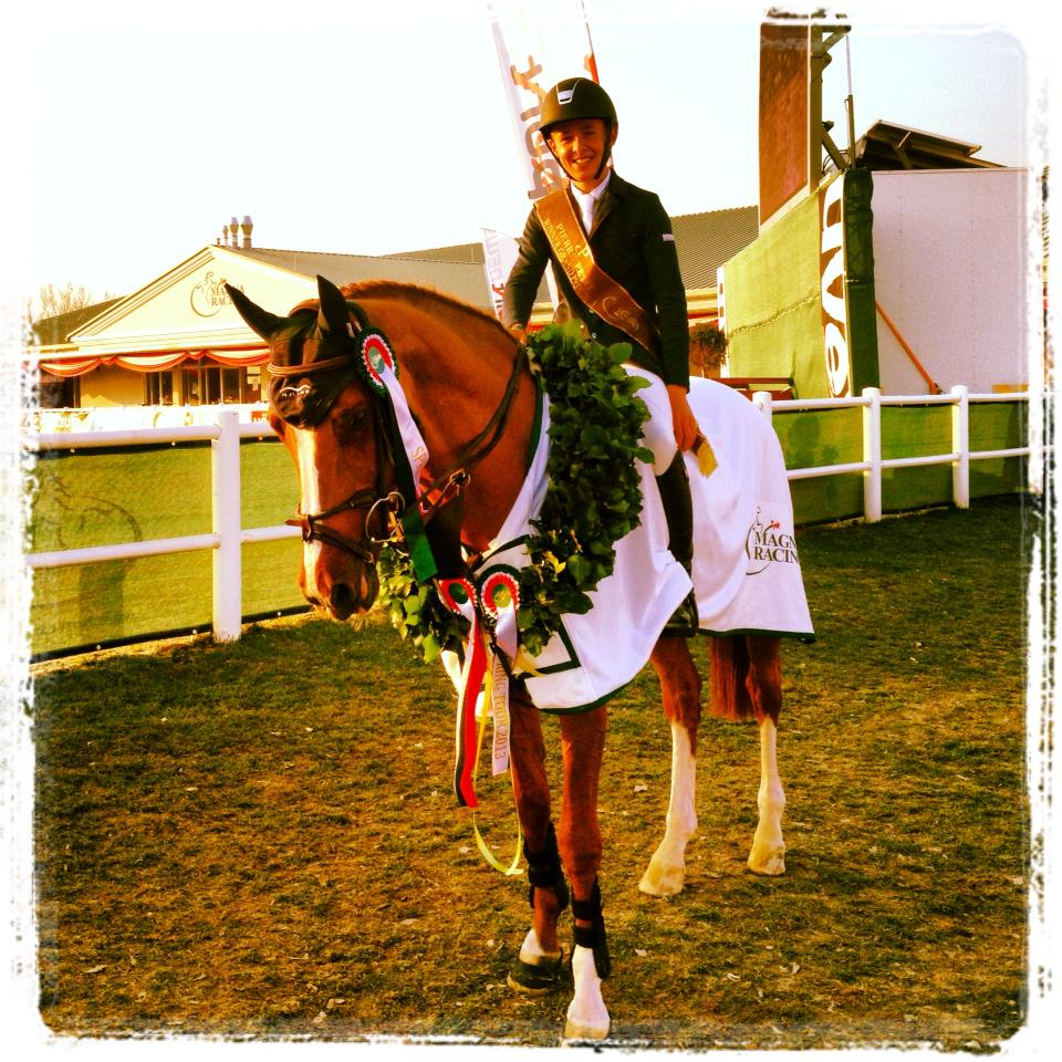 Romanov and Bertram Allen